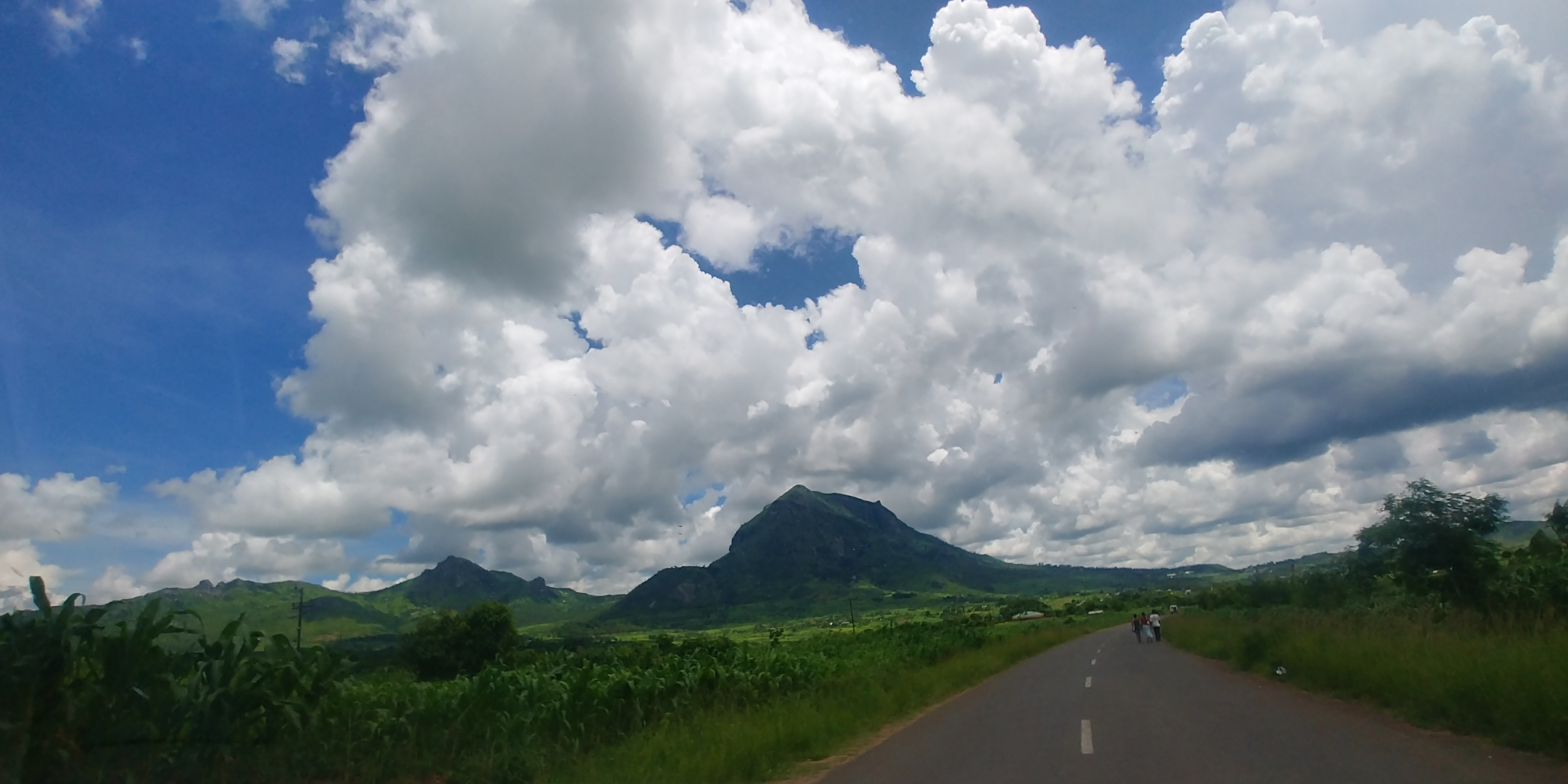 This is an image with the theme "Play" from: Malawi